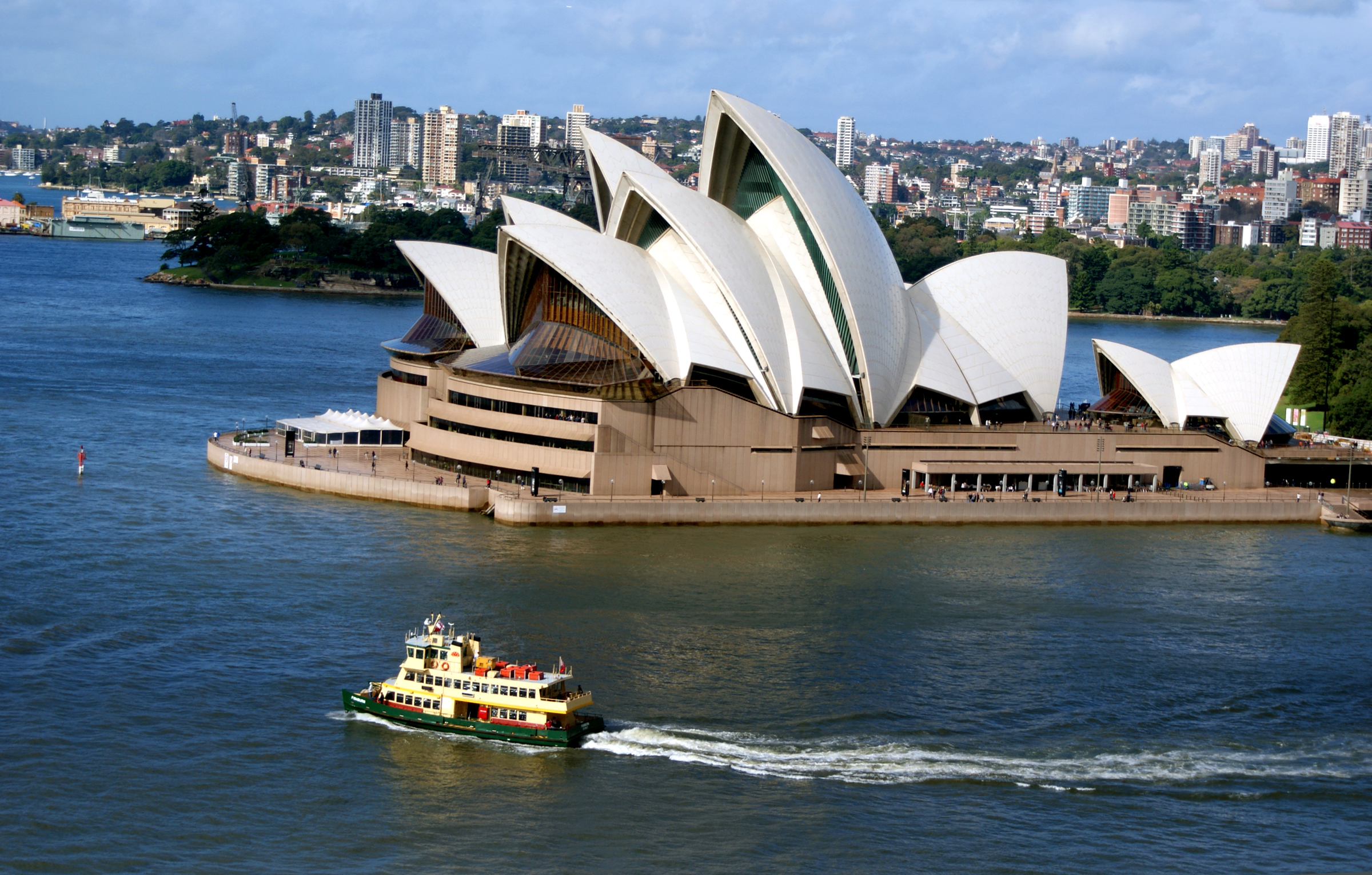 The Sydney Opera House is a multi-venue performing arts centre in Sydney, New South Wales, Australia. Situated on Bennelong Point in Sydney Harbour, close to the Sydney Harbour Bridge, the facility is adjacent to the Sydney central business district and the Royal Botanic Gardens, between Sydney and Farm Coves. Designed by Danish architect Jørn Utzon, the facility formally opened on 20 October 1973 after a gestation beginning with Utzon's 1957 selection as winner of an international design competition. The Government of New South Wales, led by the premier, Joseph Cahill, authorised work to begin in 1958 with Utzon directing construction. The government's decision to build Utzon's design is often overshadowed by circumstances that followed, including cost and scheduling overruns as well as the architect's ultimate resignation